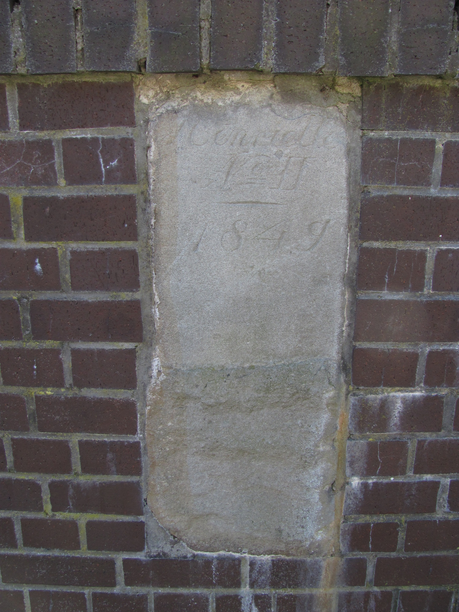 Landmarked cairn of coal mine Henriette II. (Reg# A0925) Hugo-Heimsath-Strasse 48, Dortmund, Germany